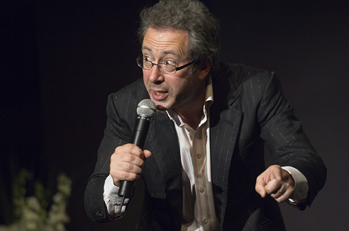 The English Australian Comedian, Ben Elton